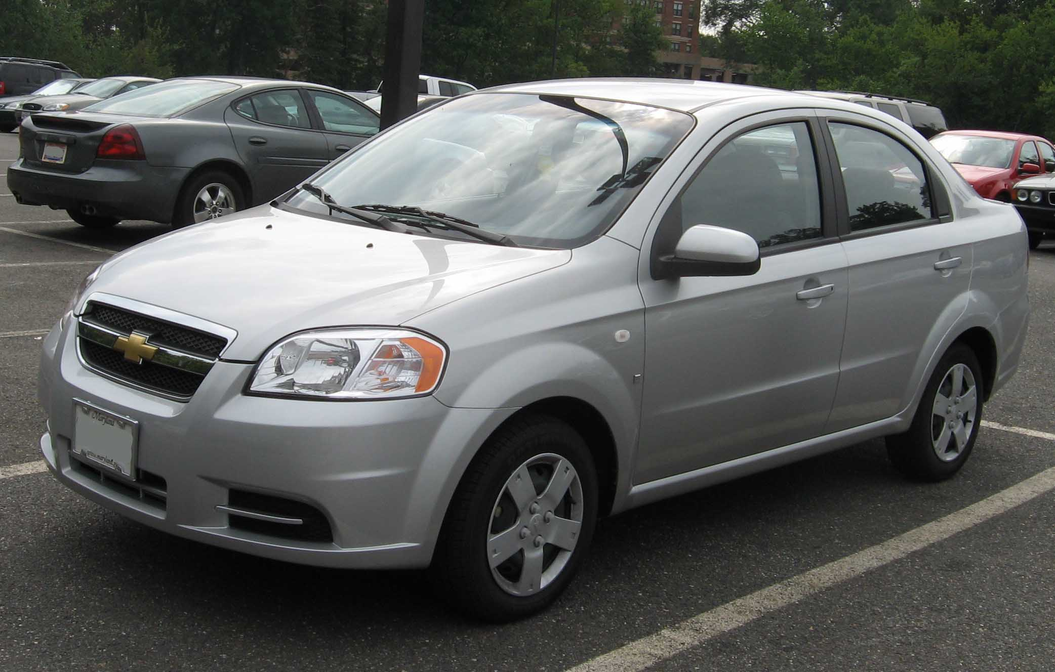 2007 Chevrolet Aveo photographed in College Park, Maryland, USA.